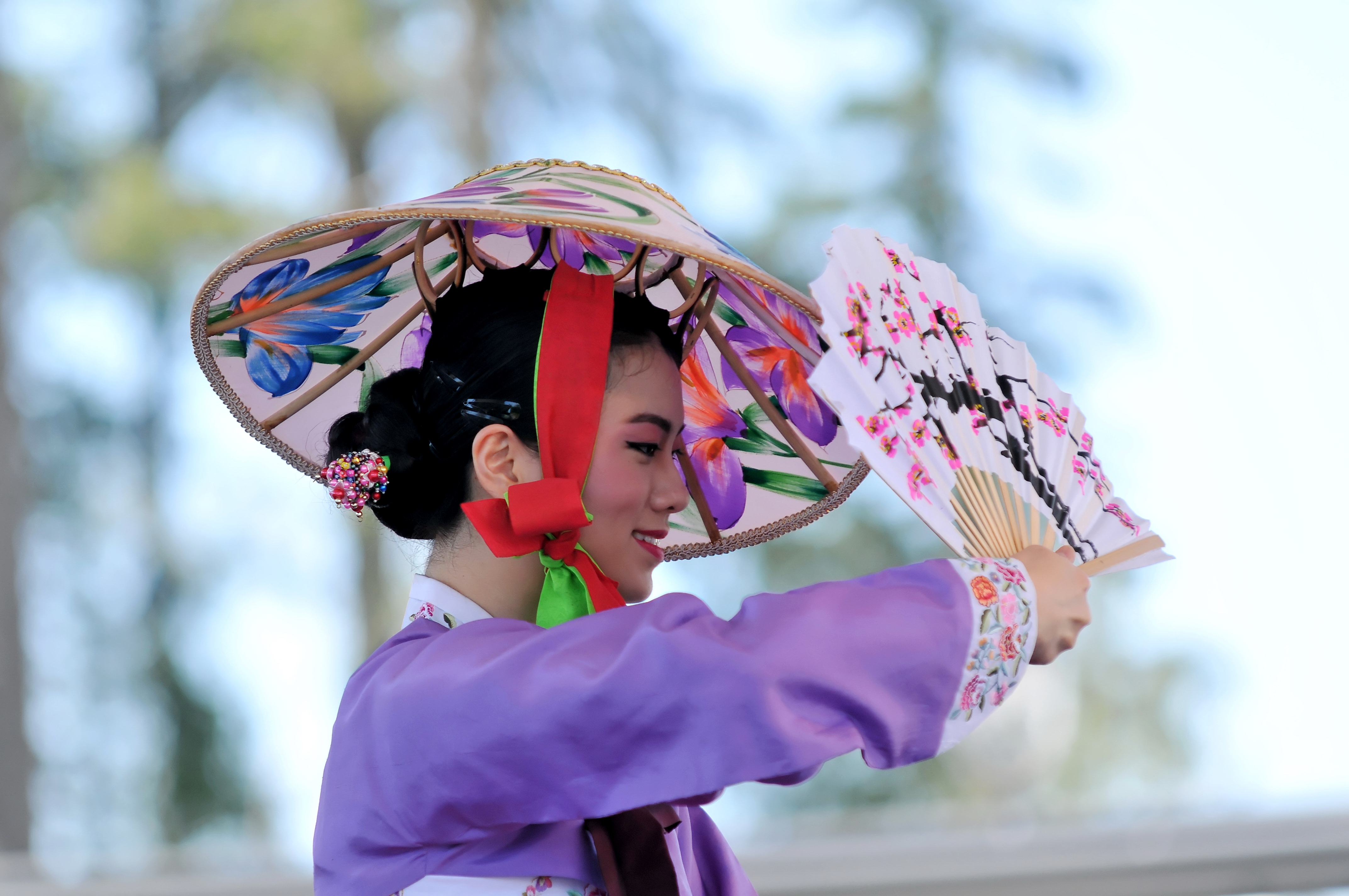 Korean Traditional Dance, Surrey Fusion Festival 2010